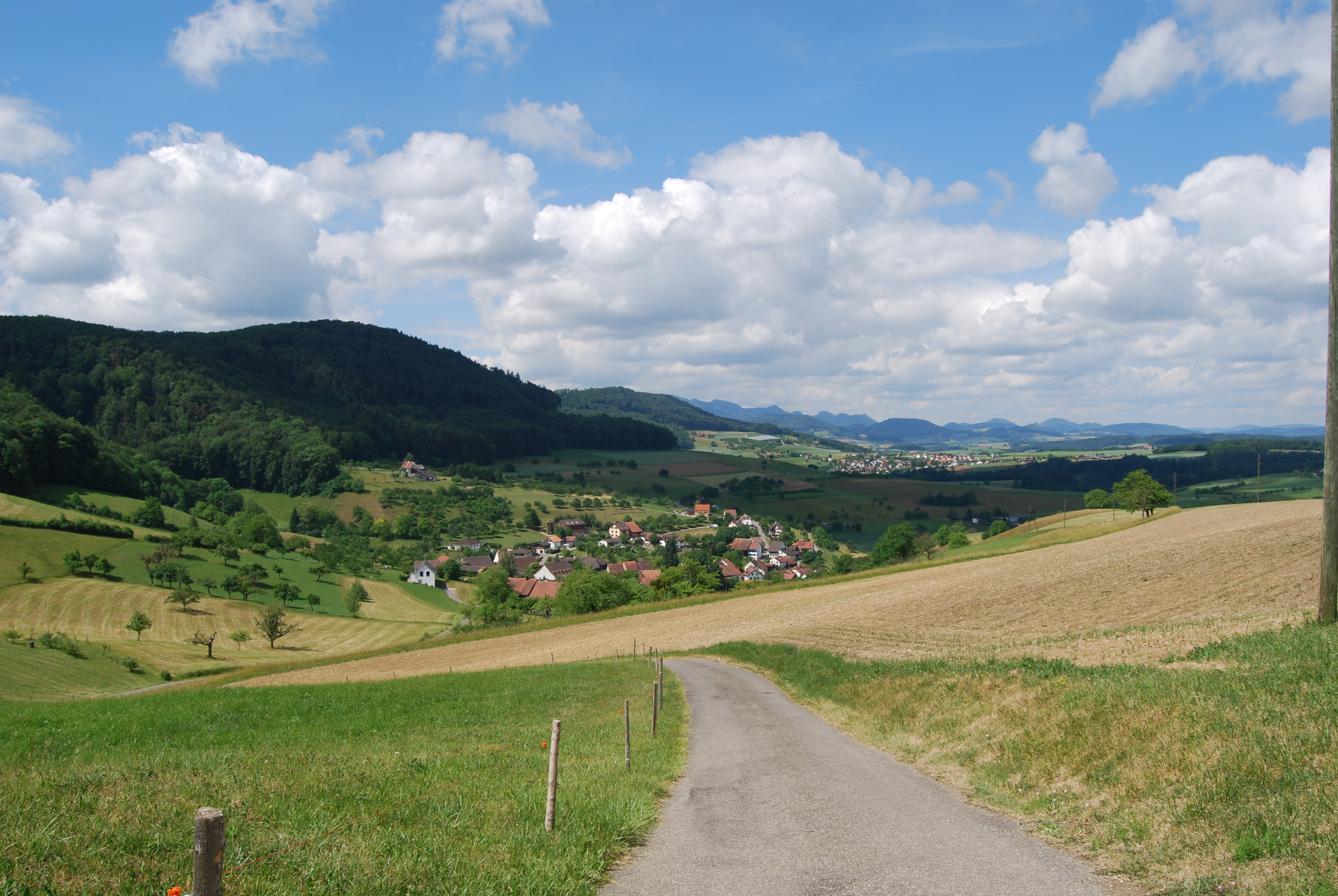 Häfelfingen and in the back Känerkinden, canton of Basel-Landschaft, Switzerland